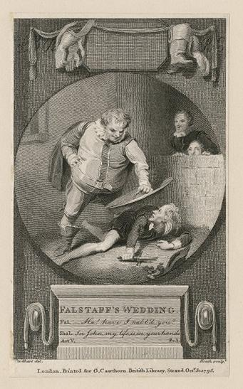 illustration by Heath to the 1766 edition of Falstaff's Wedding by William Kendrick